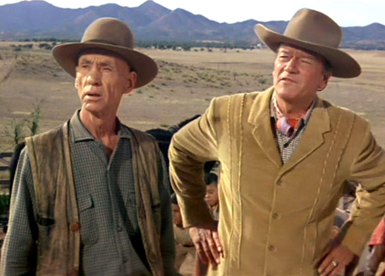 Hank Worden and John Wayne in McLintock! (1963) (cropped screenshot)